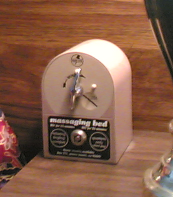 The coin box for a Magic Fingers Vibrating Bed system.